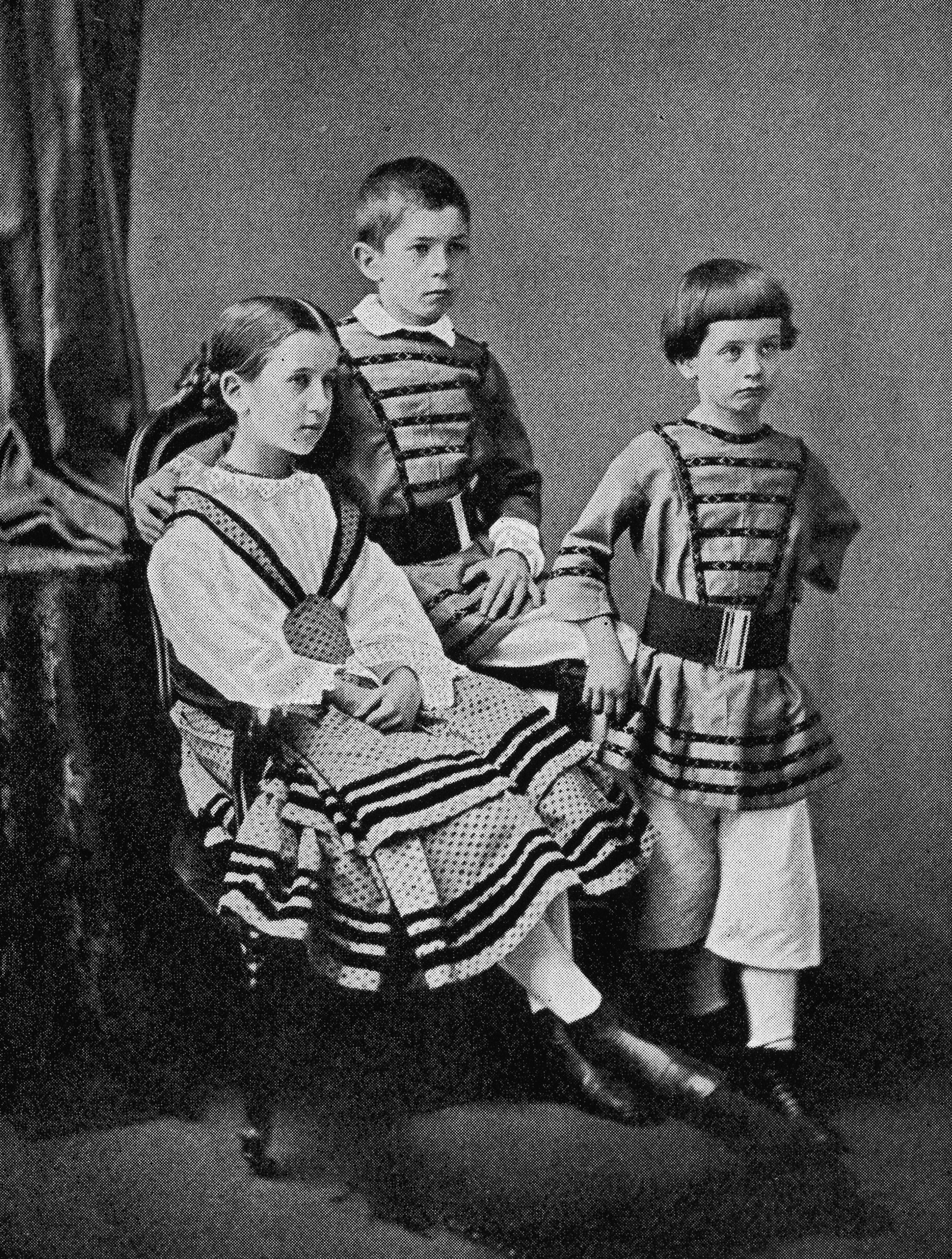 Marie, Herbet and Wilhelm von Bismarck, children of Johanna von Bismarck and Otto von Bismarck ca. 1855.